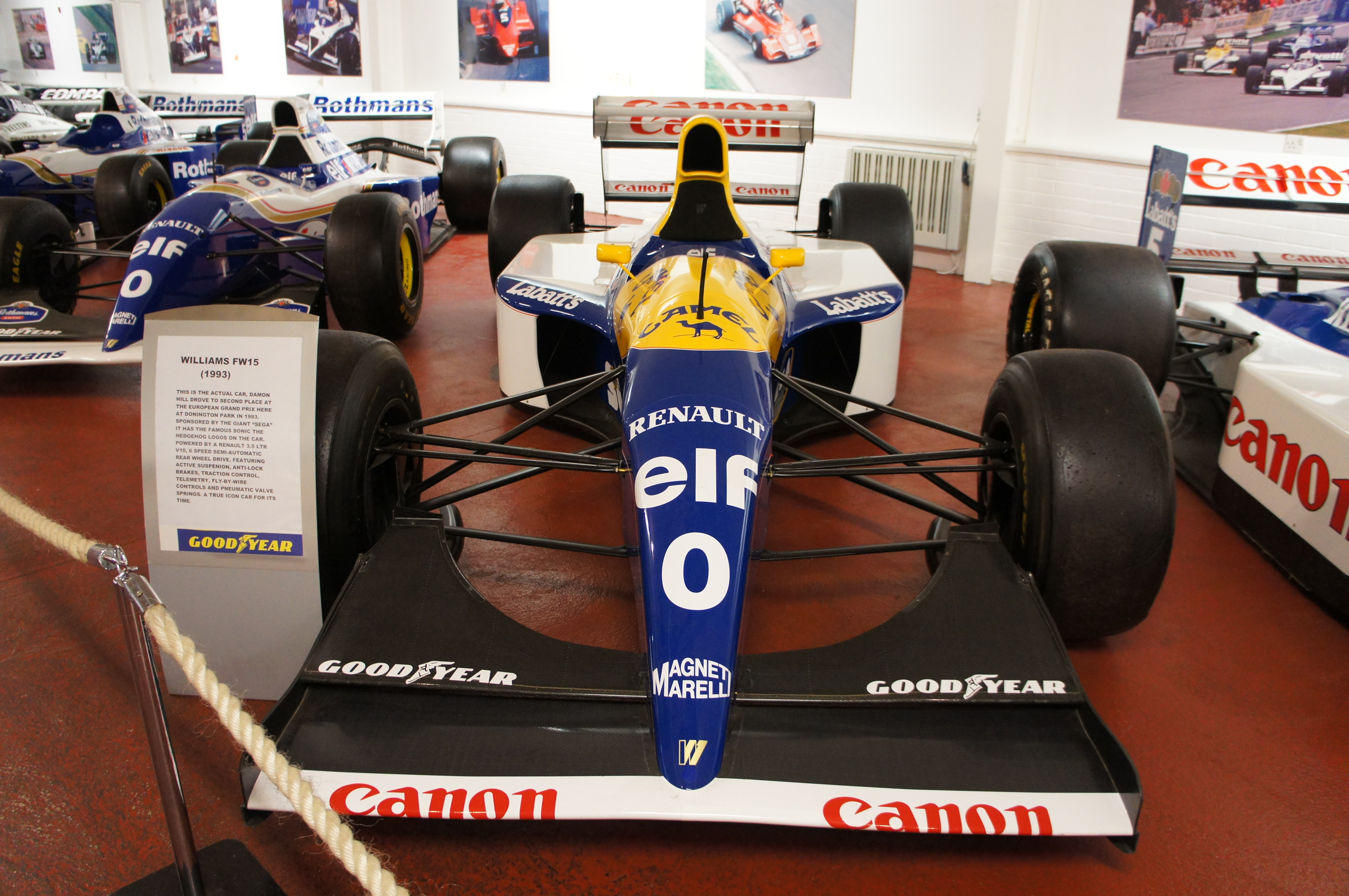 Damon Hill's Williams FW15C at Donington Park in early 2012.